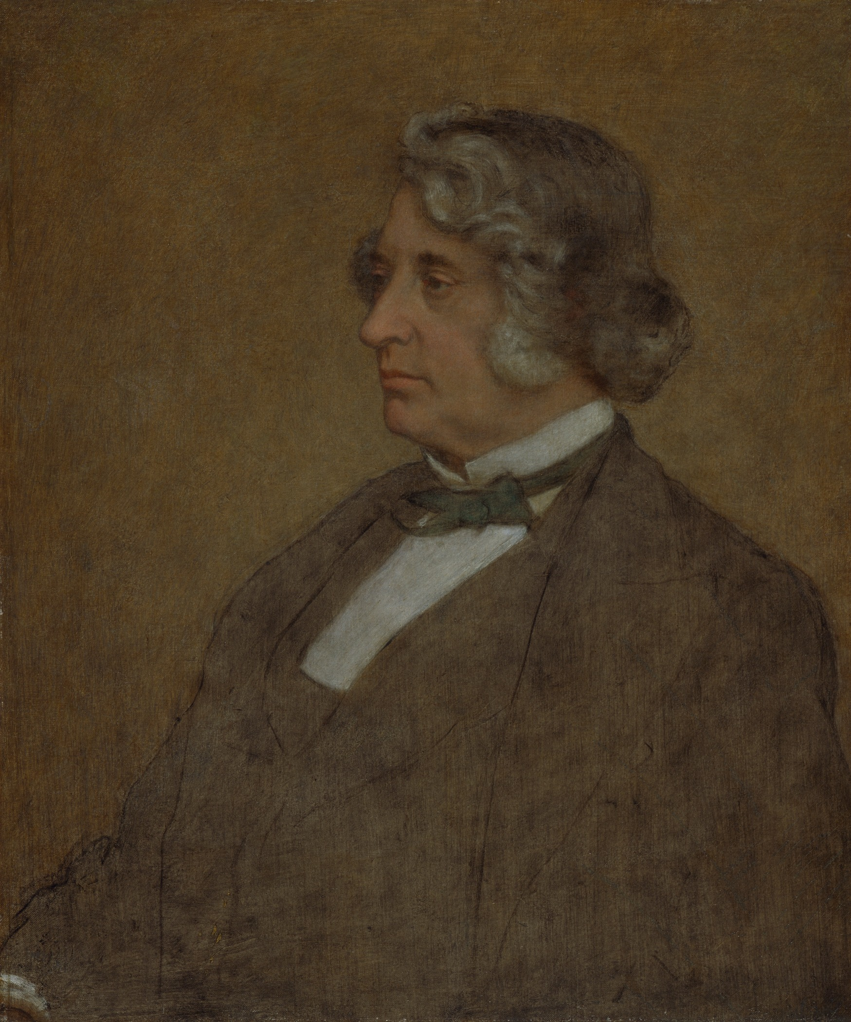 United States, 1874 Paintings Oil on canvas Gift of Sandra and Jacob Y. Terner in honor of the museum's twenty-fifth anniversary (M.90.124) American Art